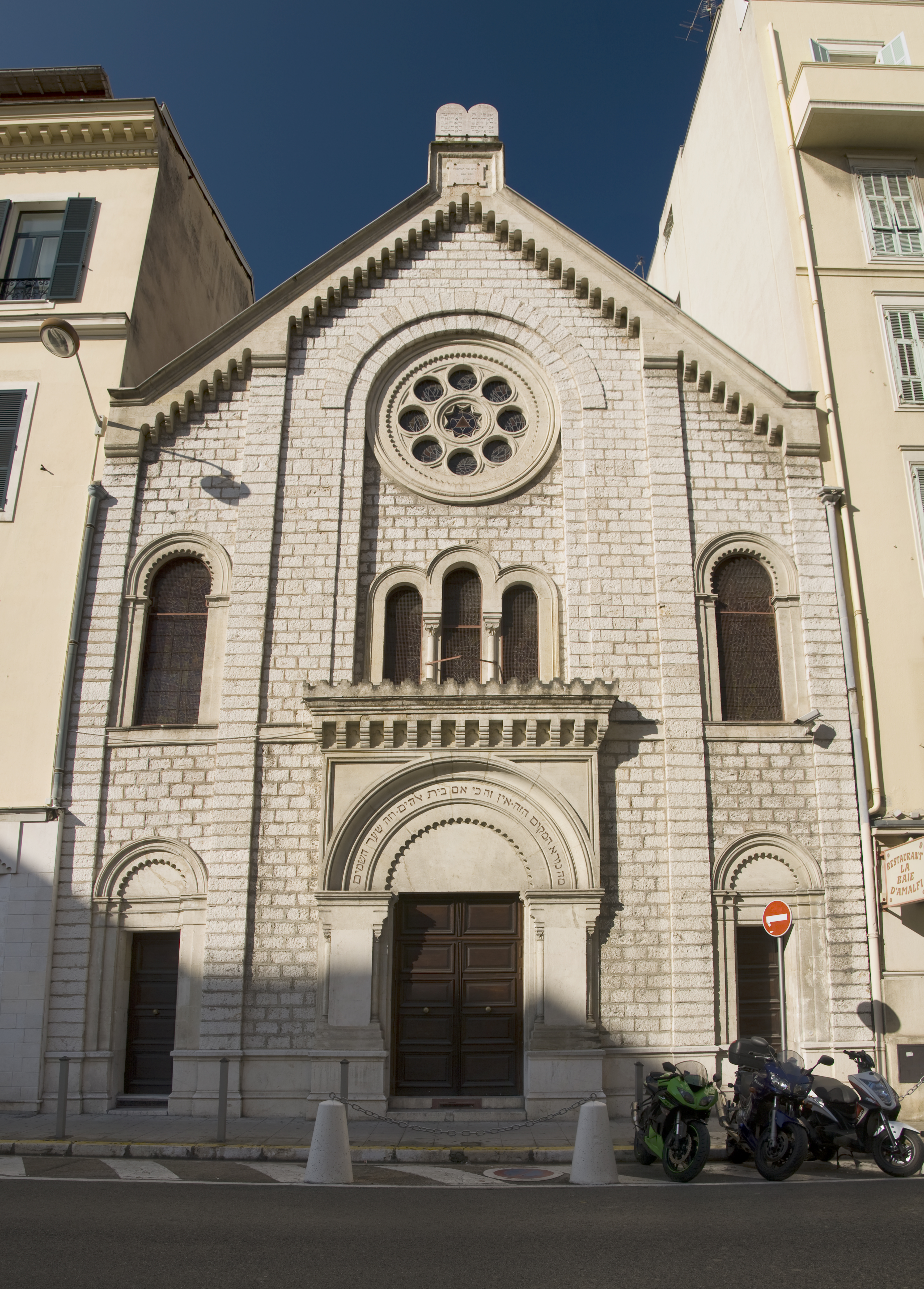 Synagogue, 7, rue Deloye in Nice, front view. .